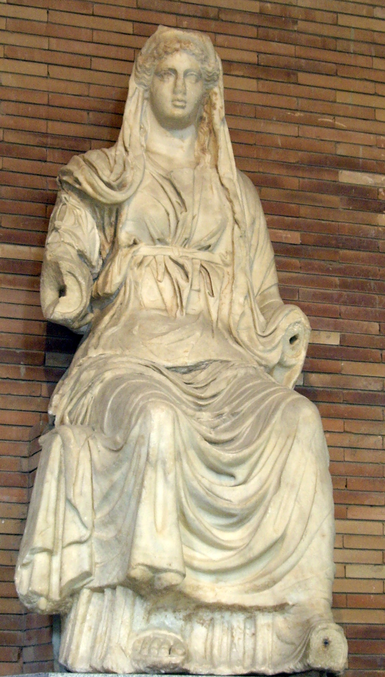 The goddess Ceres, seated. Marble sculpture from the latter part of the 1st century CE. National Museum of Roman Art of Mérida (ancient Emerita Augusta), where there is a copy in front of the magnificent ruins of the Roman theatre